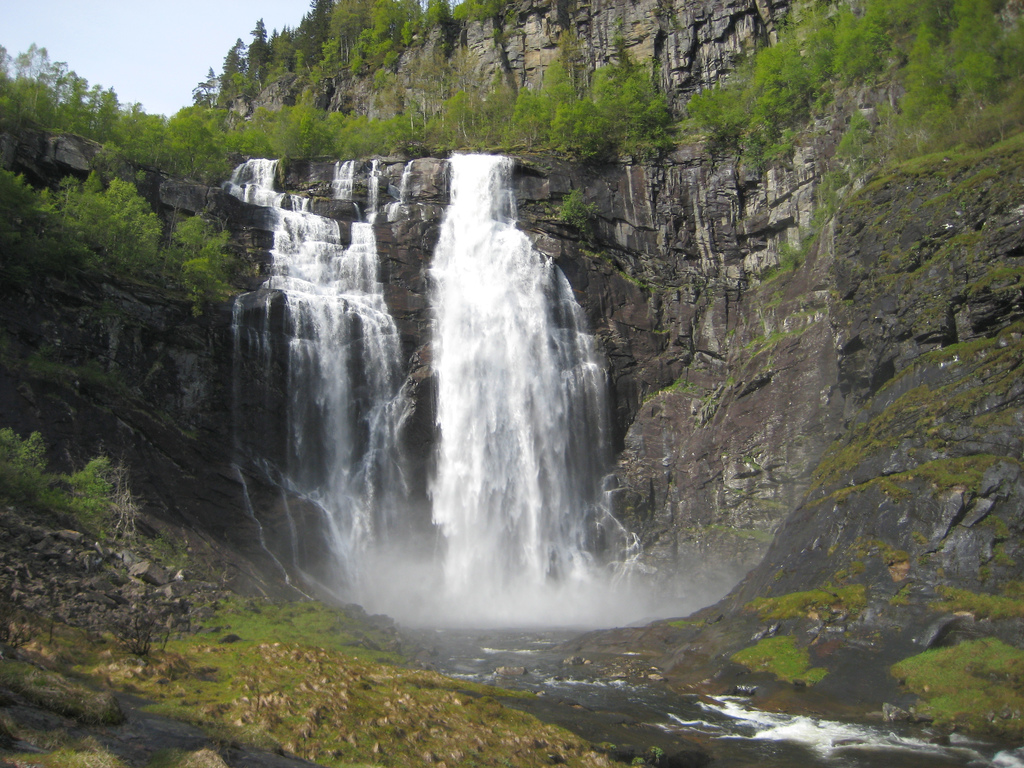 Waterfall between Voss and Granvin. Picture taken 27 of May. The amount of water in these falls depends upon amount of snow melting in the mountains in springtime.